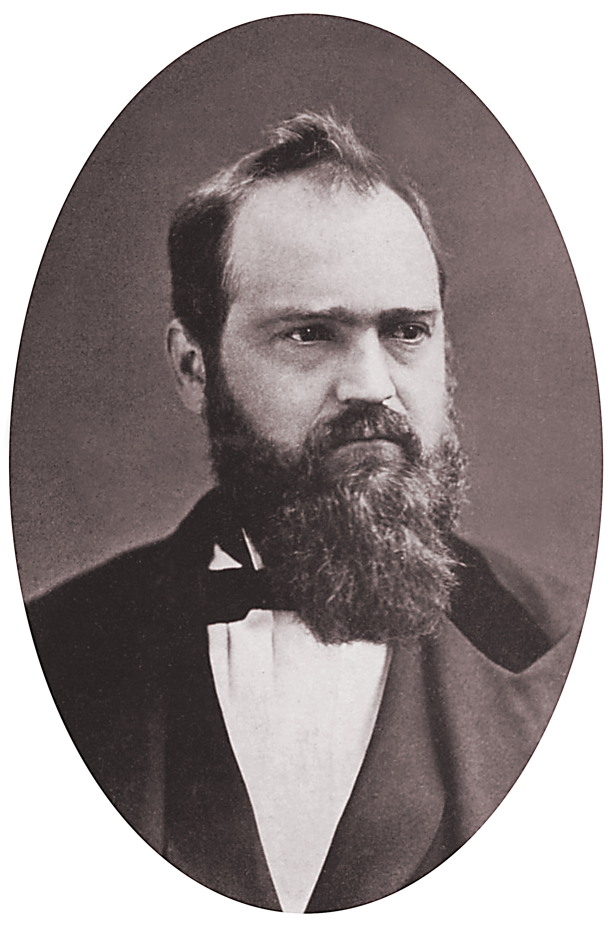 Harvey W. Scott (1838-1910), Oregon newspaper editor as he appeared circa 1874. Photo first published in Alfred Holman, "Harvey W. Scott, Editor: Review of His Half-Century Career and Estimate of His Work," Quarterly of the Oregon Historical Society, vol. 14, no. 2 (June 1, 1913), pp. 87-133. Digitized and digitally edited for Wikipedia by Tim Davenport ("Carrite"), no copyright claimed for the work, file released to the public domain without restriction.